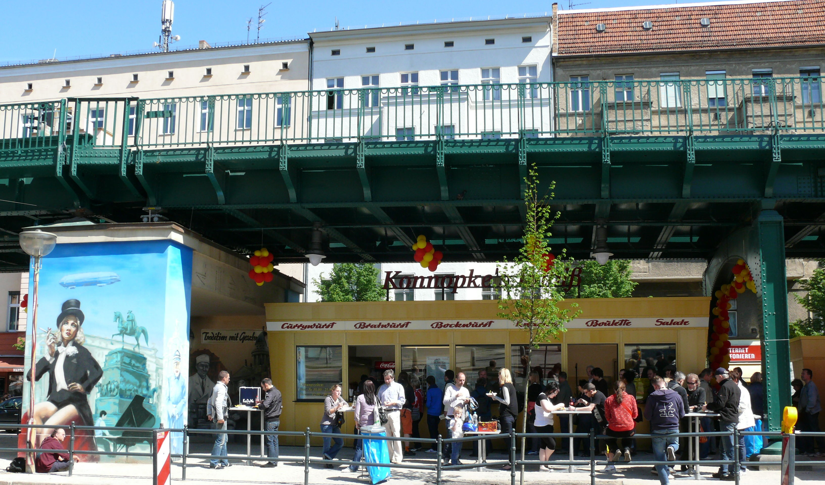 Konnopke's Imbiß after reconstruction